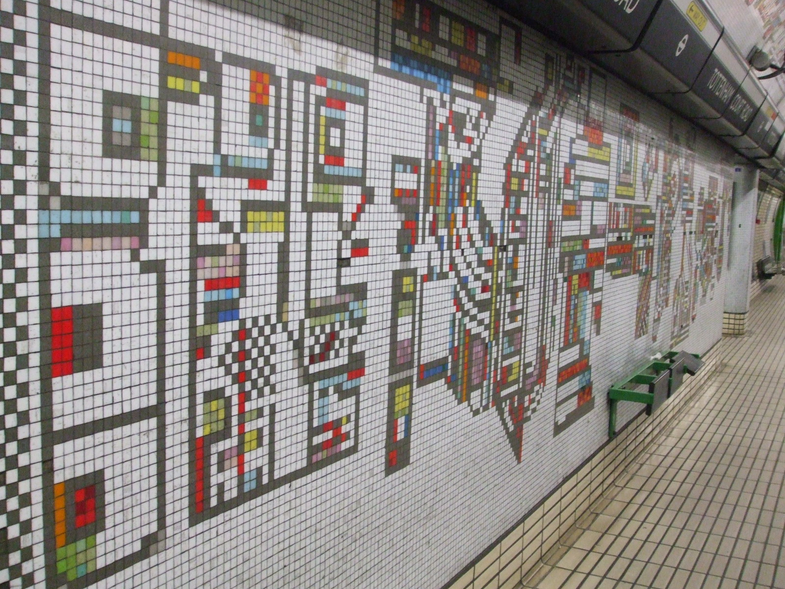 Mosaic on Tottenham Court Road tube station Northern line northbound platform. Original design by Eduardo Paolozzi.